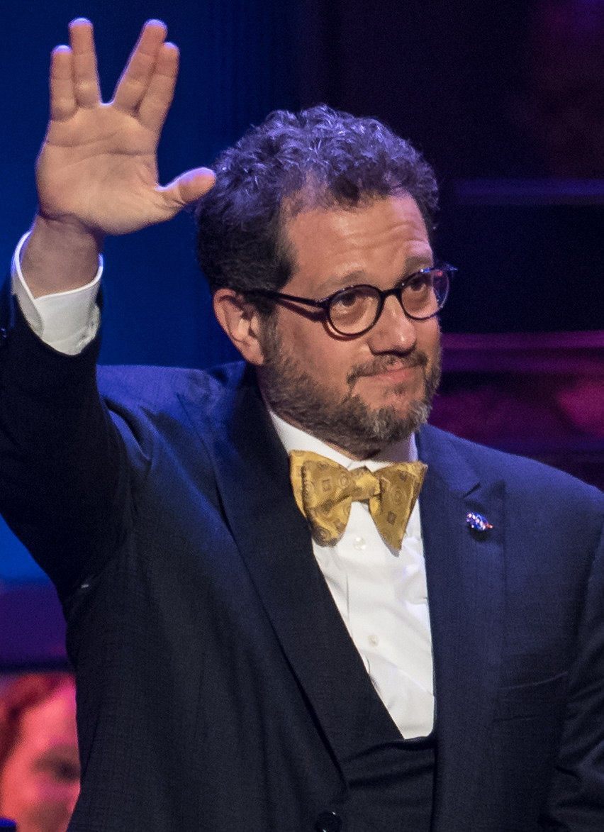 Star Trek composer Michael Giacchino does the Vulcan salute after conducting the National Symphony Orchestra during the "Space, the Next Frontier" event celebrating NASA's 60th Anniversary, Friday, June 1, 2018 at the John F. Kennedy Center for the Performing Arts in Washington. The event featured music inspired by space including artists Will.i.am, Grace Potter, Coheed & Cambria, John Cho, and guest Nick Sagan, son of Carl Sagan.